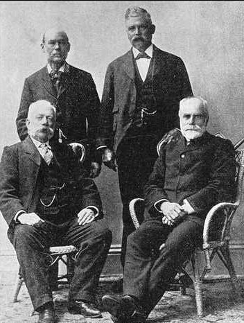 Four surviving members of John McDouall Stuart's final exploring expedition, 1861-2; sitting, left to right: W.P. Auld and F.W. Thring (second in command); standing, left to right: H. Nash and S. King